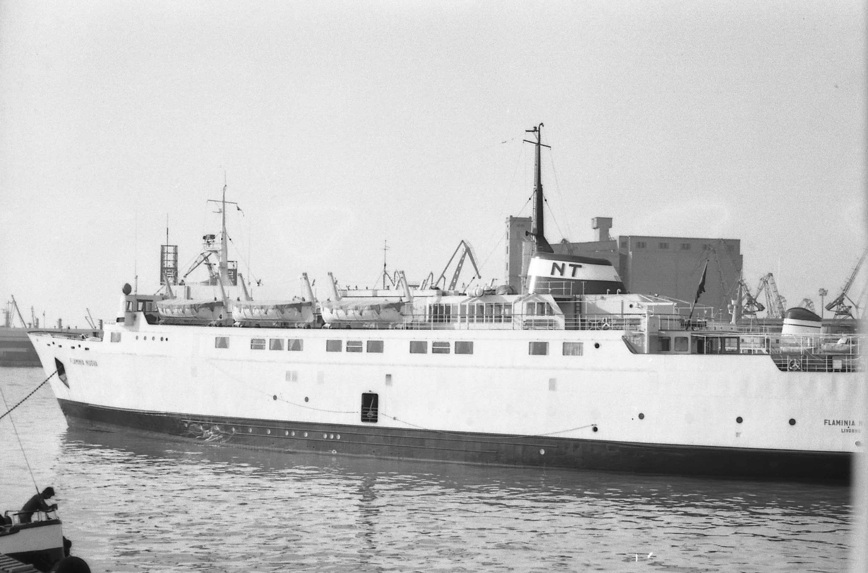 Operator: Società di Navigazione Toscana IMO: 5286100 Type: Ropax Builder: Aarhus Shipyard, Aarhus, Denmark Yard number: 111 Orderd date: April 23, 1959 Keel down: August 31, 1959 Launch date: January 19, 1960 Delivery date: June 12, 1960 Port of registry: Livorno Gross tonnage: 2196 t Net tonnage: 866 t DWT: 850 t Length overall: 88.36 m Breadth: 15.26 m Draught: 4.57 m Main engine: Två Nohab M66TS diesel engine Engine power: 4,235 kW Speed: 17.5 knots Passengers: 900 Cars: 80 Trucks: 10 Previous name: Prins Bertil (June 11, 1960 – (April 1964), Calmar Nyckel (April 1964 – April 1965), Holmia (April 1965 – January 1971) After name: Capo Bianco (February 1974 – 1992), Diana Marine ( 1992 – 1994), Raneem I (1994 – 1997), Shorouk (1997 – 1998), Shorok I (1998 - ?)